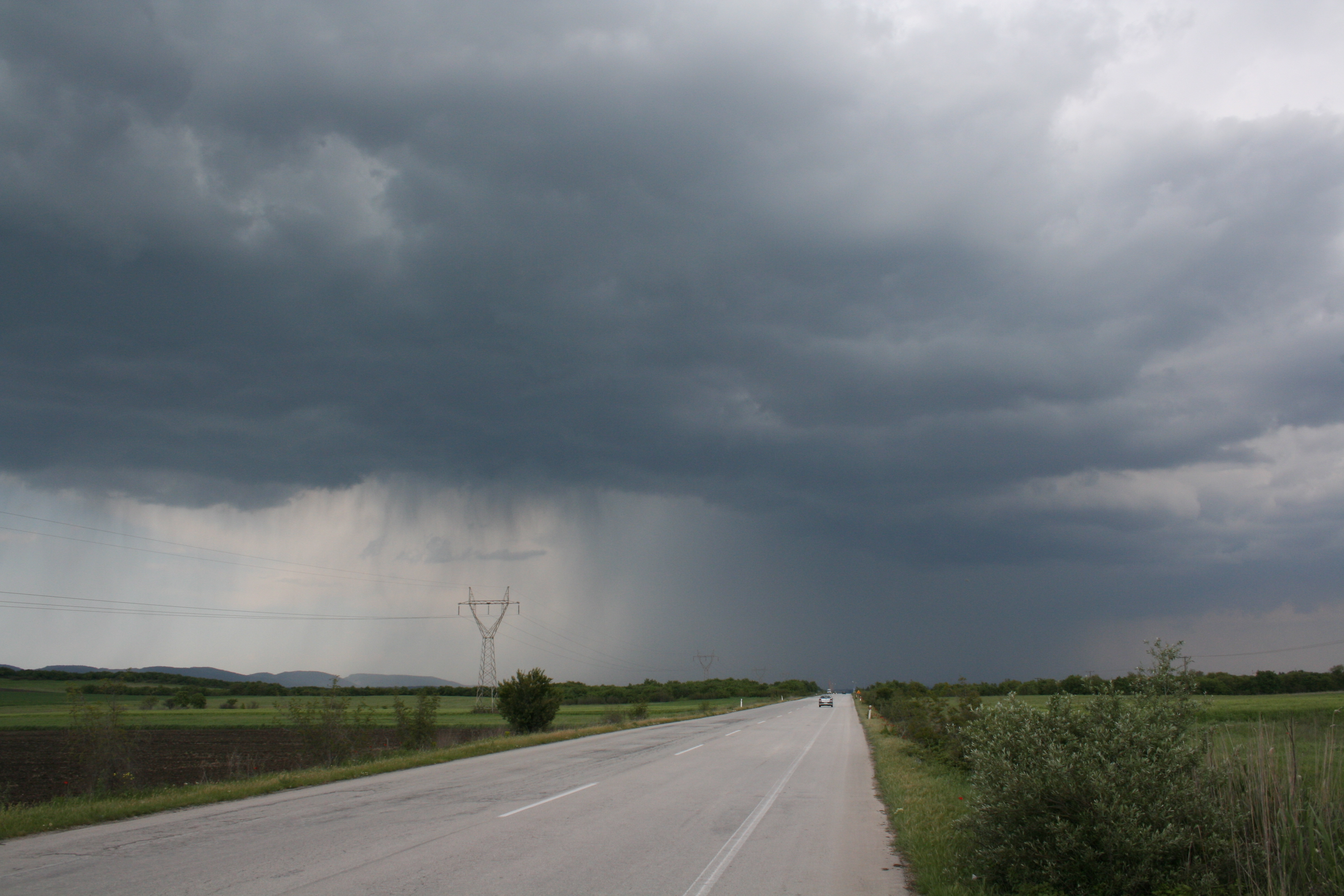 National Road 51 (European Road 85) in Evros prefecture, Greece. A thunderstrom in spring is visible ahead.